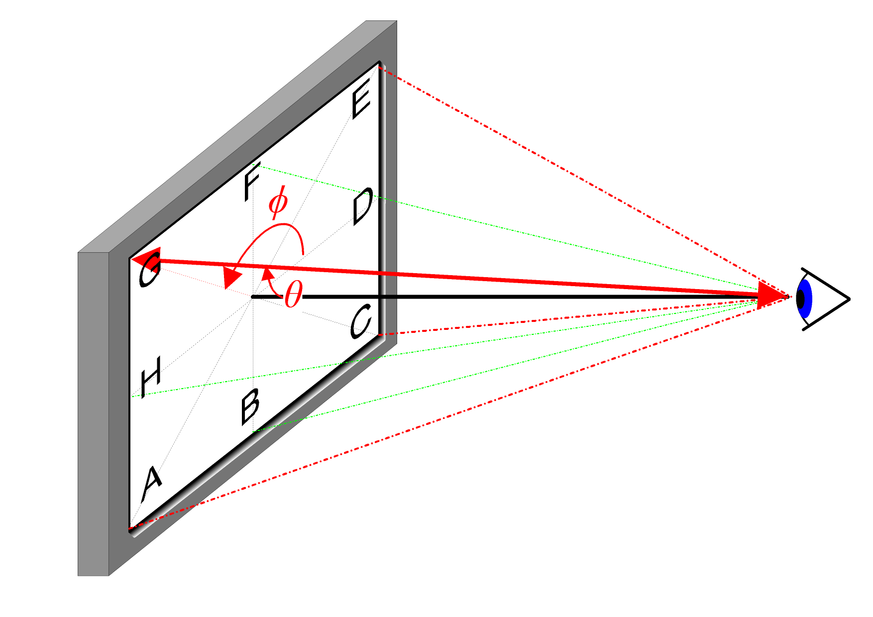 Each point on a display screen is seen from a different direction (i.e. viewing direction). The larger the screen dimensions are compared to the viewing distance, the more the variation of viewing direction across the screen area becomes pronounced.